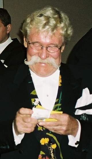 Erik Wegræus (born 1940), Swedish "riksantikvarie" (= head of The Swedish National Heritage Board) 1993-2003, at a party at Grand Hotel, Lund.